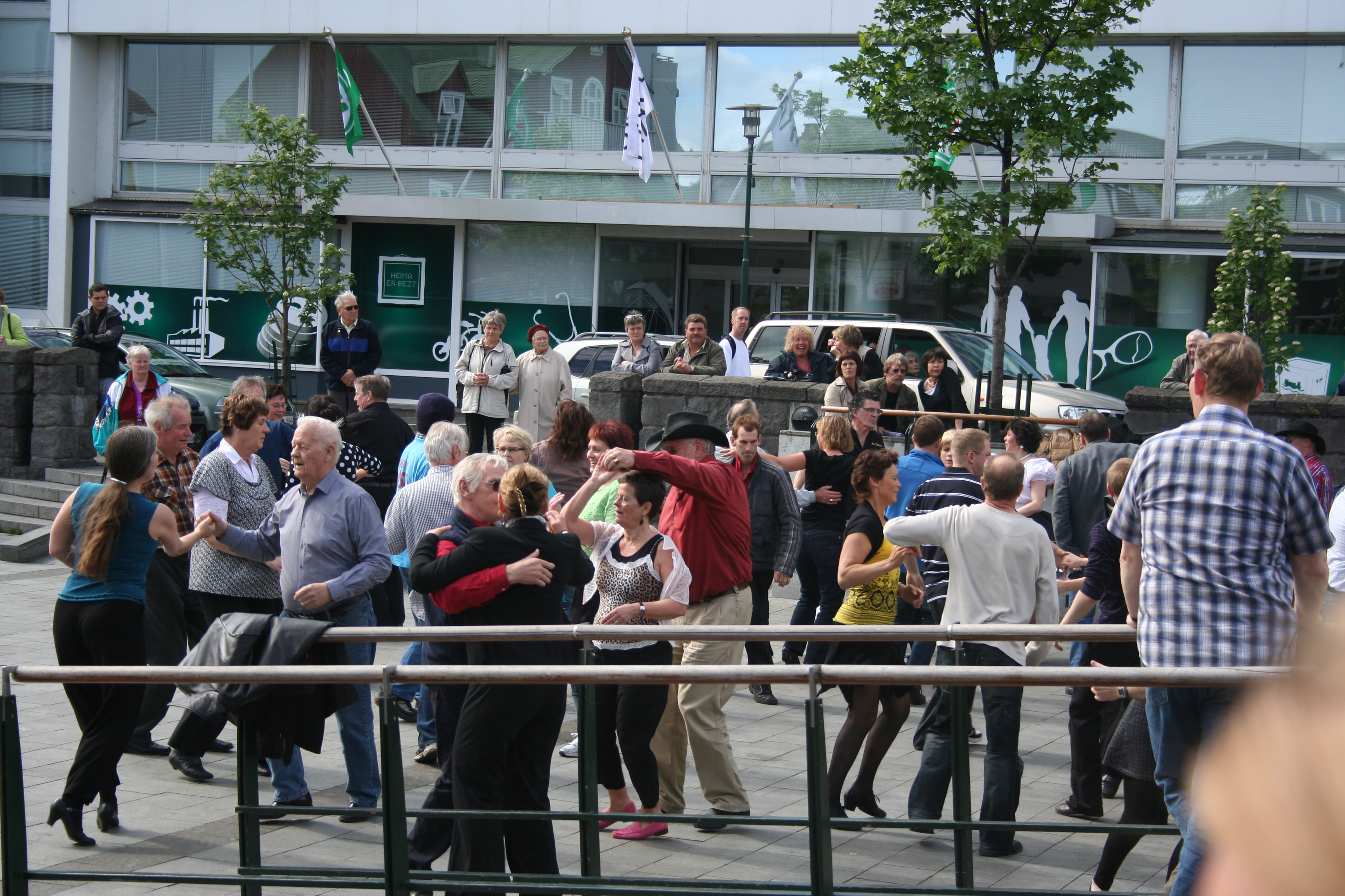 People dancing on Ingólfstorg in Reykjavík.